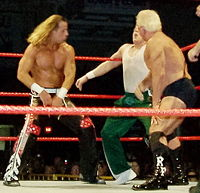 A picture of Shawn Michaels and Ric Flair delivering Double Knife Edge Chops.